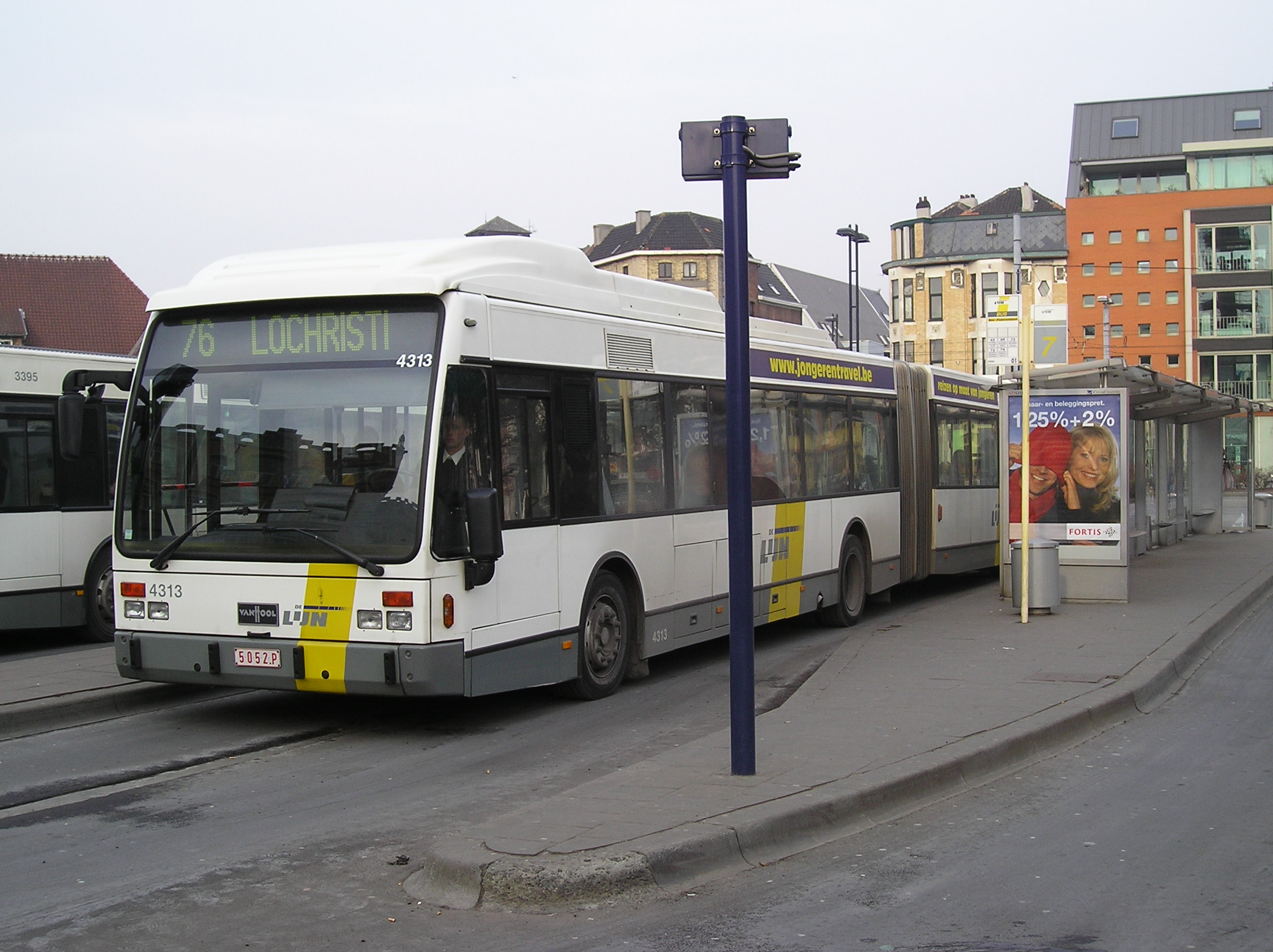 Van Hool AG300 articulated bus of the Flemish public transport authority De Lijn in Ghent, on the square in front of Sint-Pieters train station.